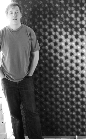 Photograph of artist Gavin Rain